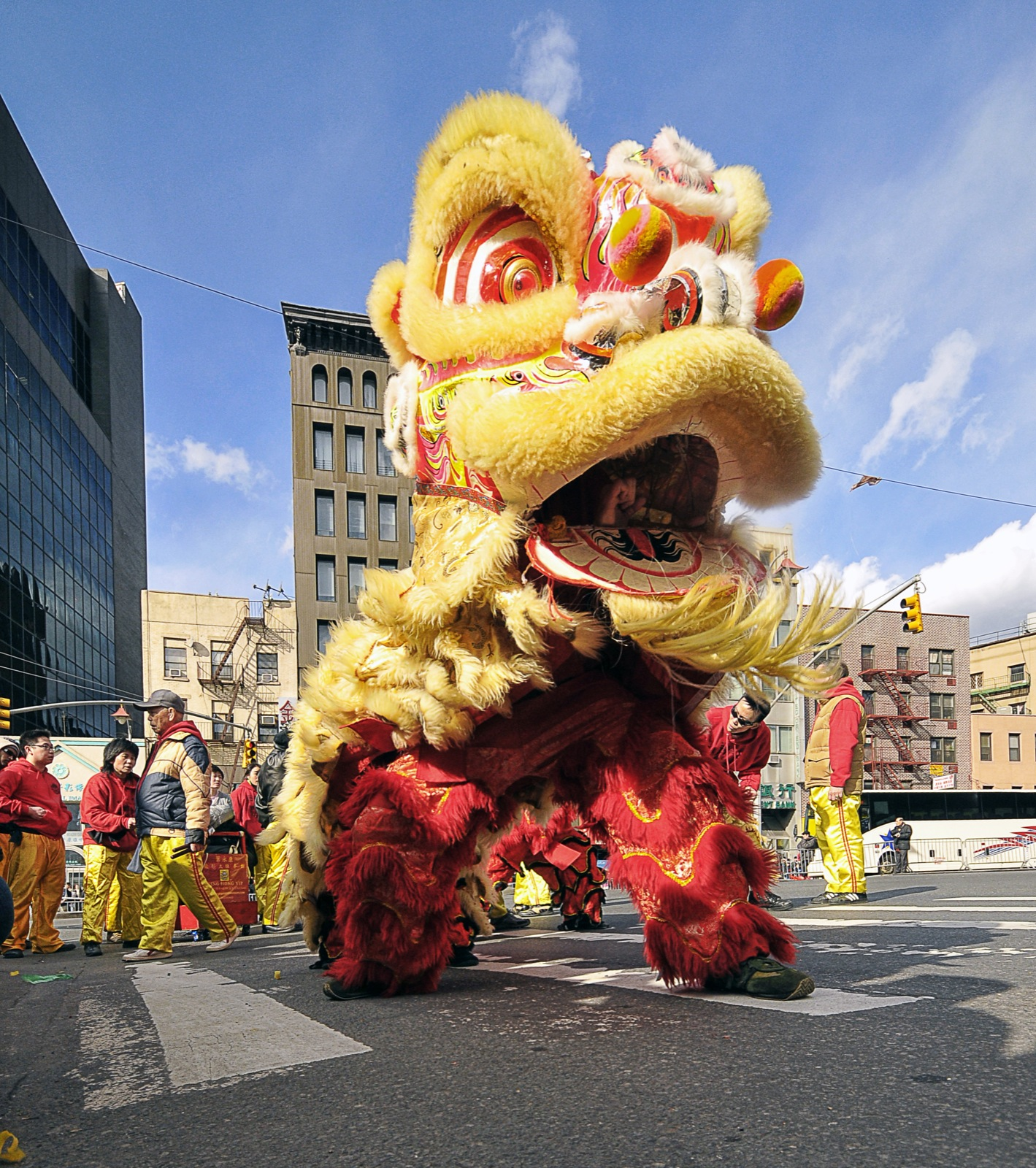 A lion dance in Chinatown, Manhattan, New York City, New York, USA, during the Chinese New Year. (The photograph was originally incorrectly described as a "Dragon Dance".)